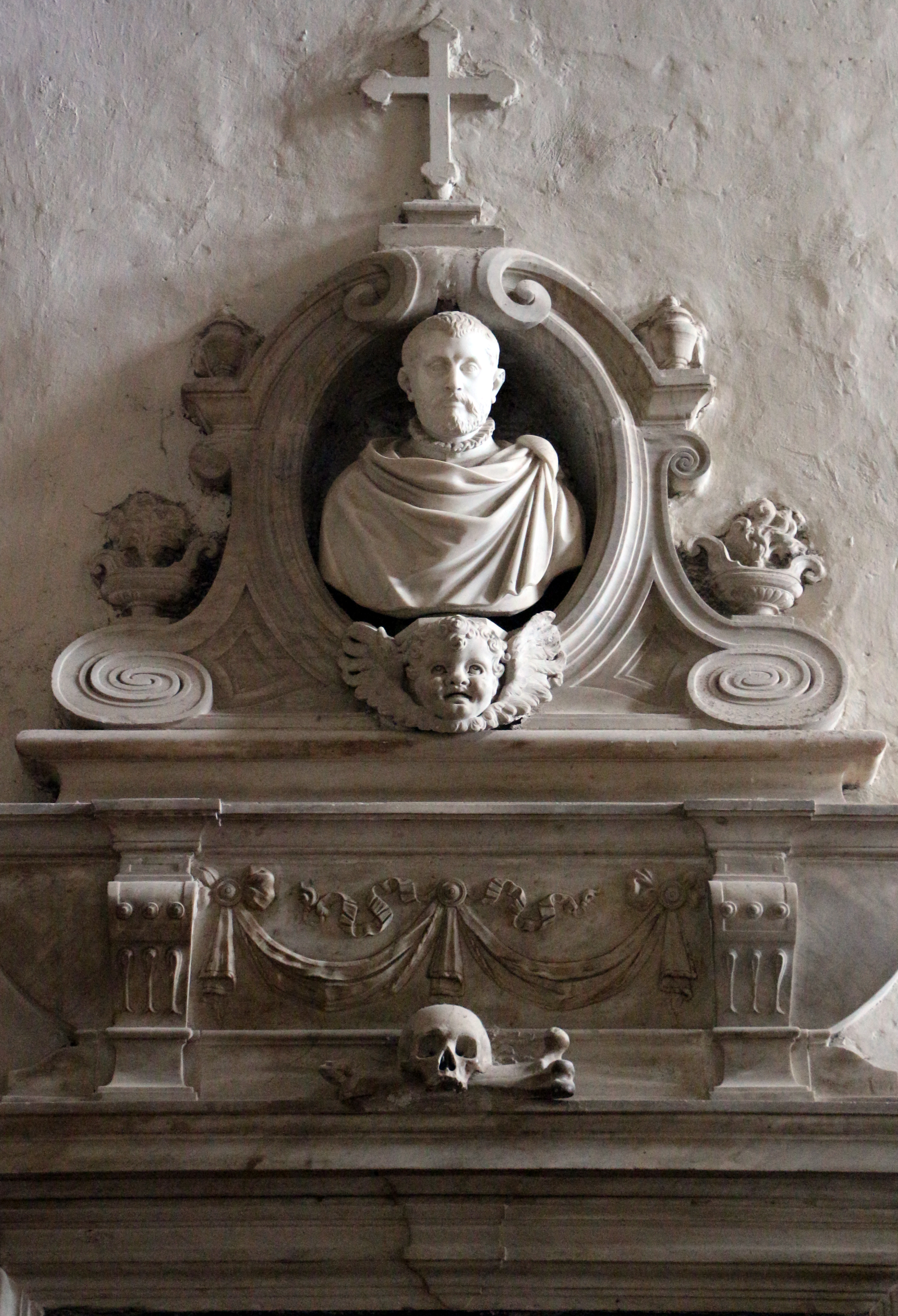 San Domenico (Perugia)